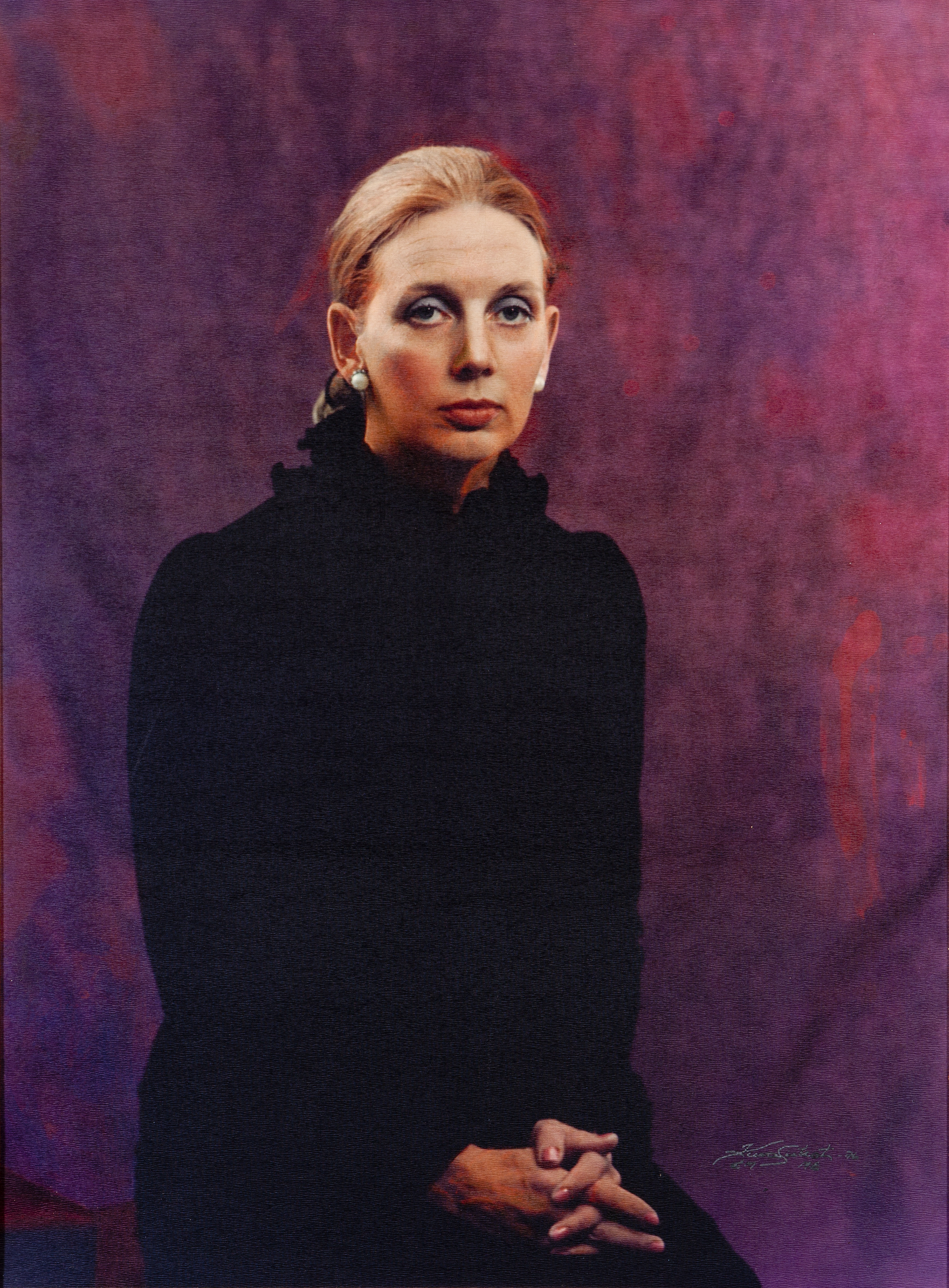 Photograph of the Finnish patron Jane Erkko (1936–2014).